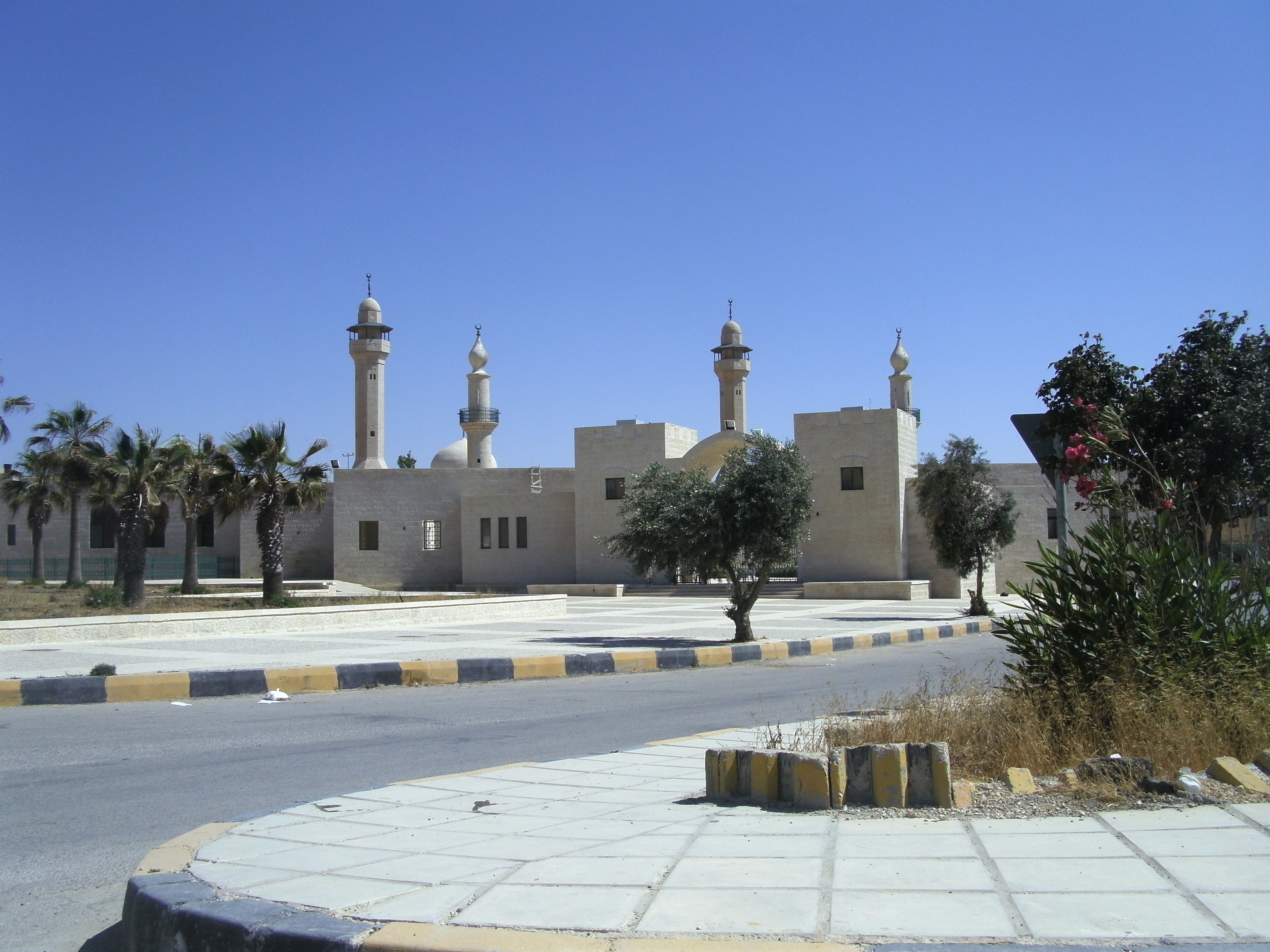 Ja’far’s tomb is located in Al-Mazar, near Kerak, Jordan. It is enclosed in an ornate shrine of gold and silver made by the Dawoodi Bohra’s 52nd Da’i, Mohammed Burhanuddin.